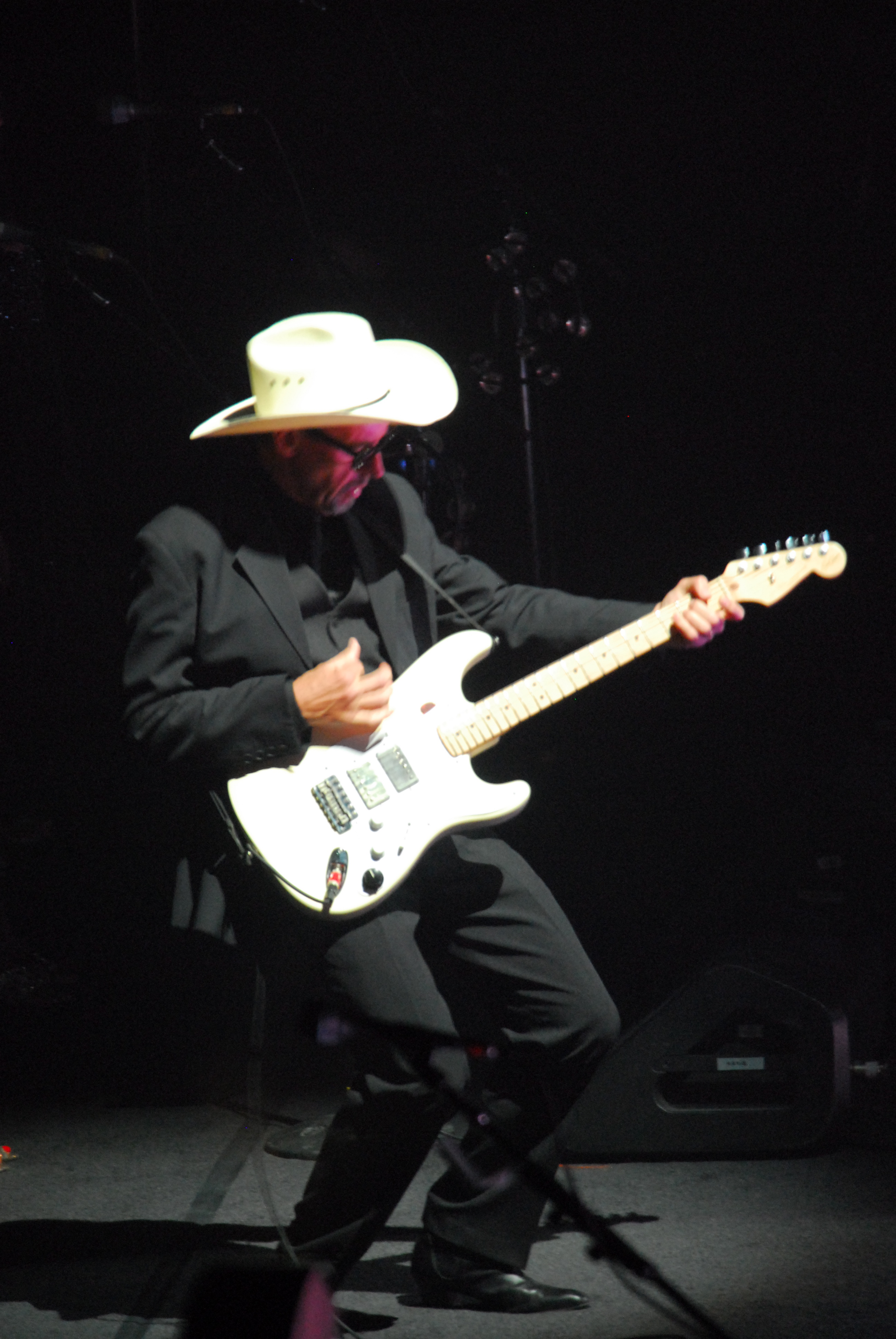 I took this Picture myself June 6, 2007 in Ottawa and anyone may use it as they wish just let me know about it. Of course you can't use it for bad things... why would you want to? More pictures of the same concert can be seen at